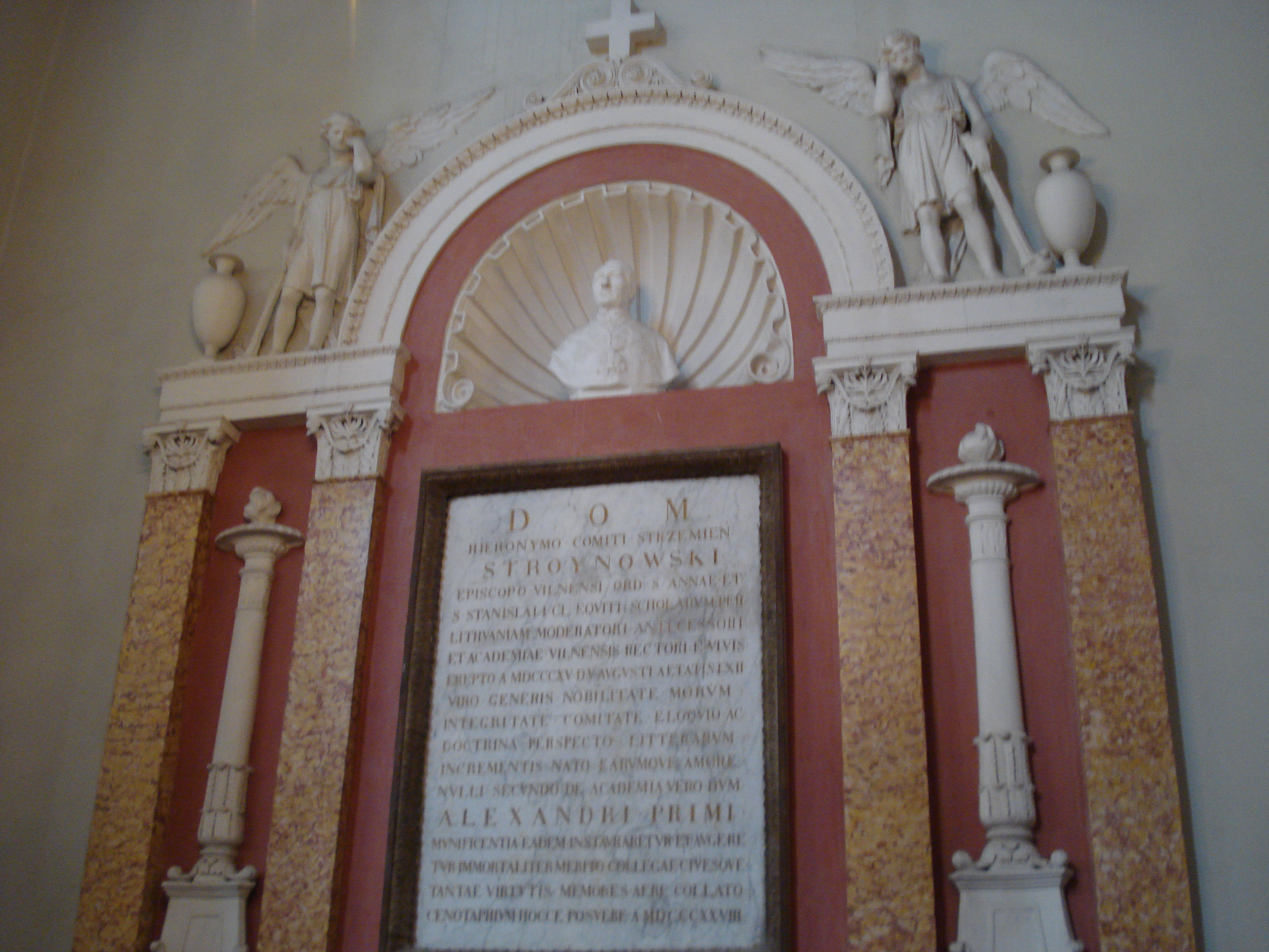 Tomb of Hieronim Strojnowski in the Church of St. Johns, Vilnius